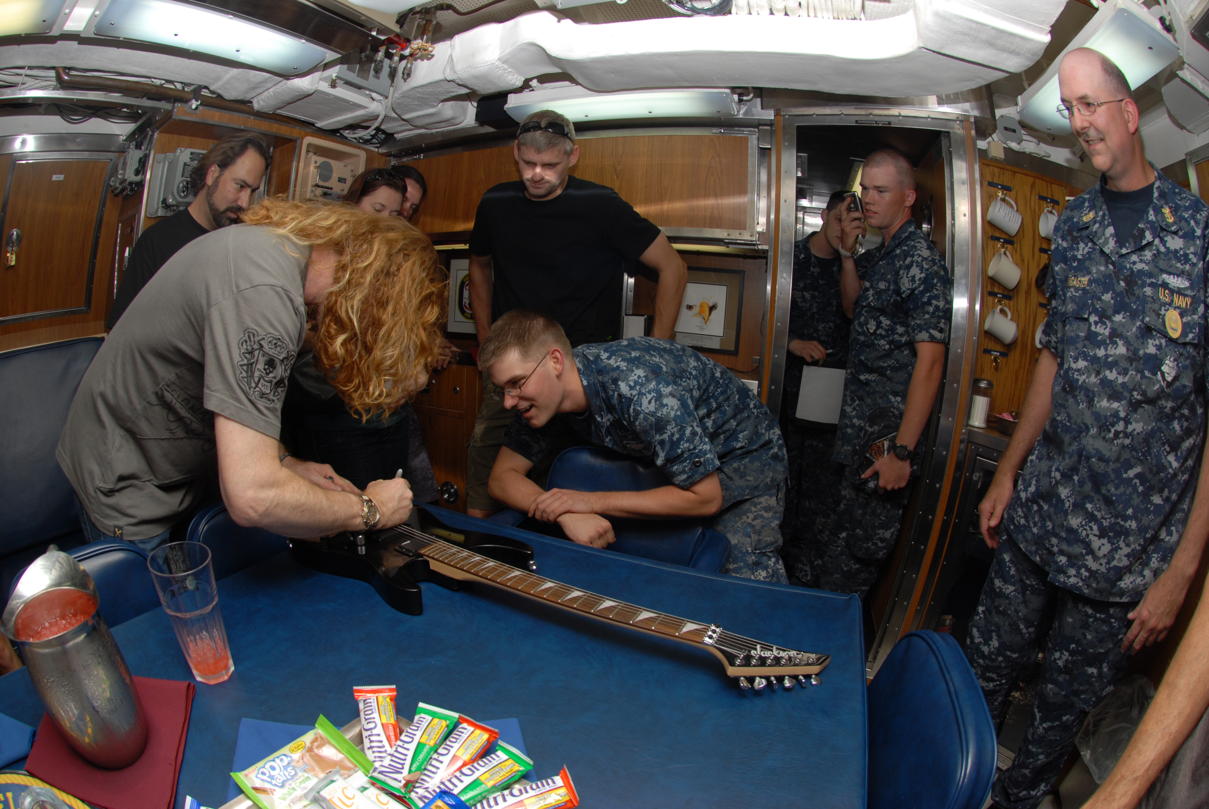 NORFOLK (Aug. 1, 2011) Culinary Specialist 3rd Class Adam Danca, center, from Abilene, Texas, watches Dave Mustaine, lead singer of the band Megadeth, autograph his guitar aboard the Los Angeles-class attack submarine USS Helena (SSN 725). Members from the band made a brief stop to visit the submarine at Naval Station Norfolk before their concert in Virginia Beach, Va., Aug. 2. (U.S. Navy photo by Mass Communication Specialist 1st Class Todd A. Schaffer/Released) 110801-N-NK458-026